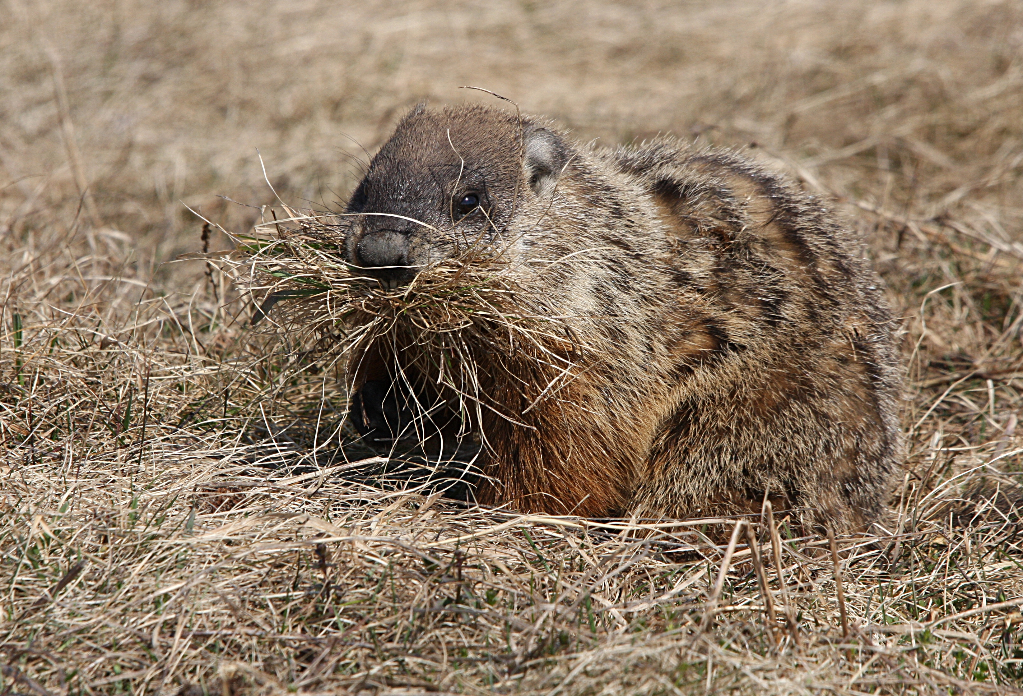 Groundhog (Marmota monax) gathering grasses for its burrow, Cap Tourmente National Wildlife Area, Quebec, Canada